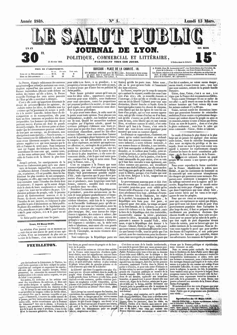 First issue of the Lyon daily Le Salut Public, March 13, 1848.